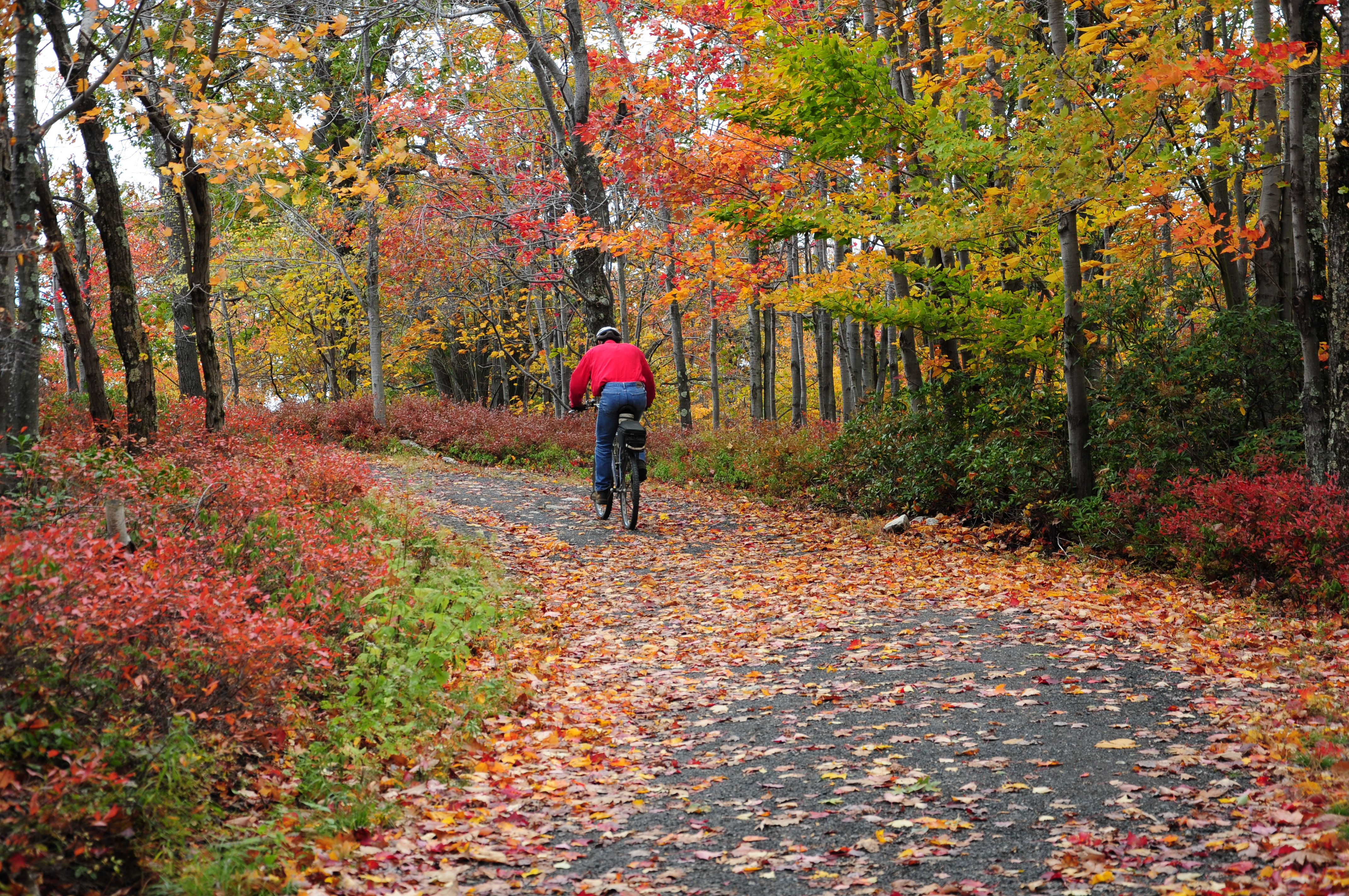 Breathtaking palette of spectacular color of leaves along the castle point trail in Minnewasaka State Park, New York, USA